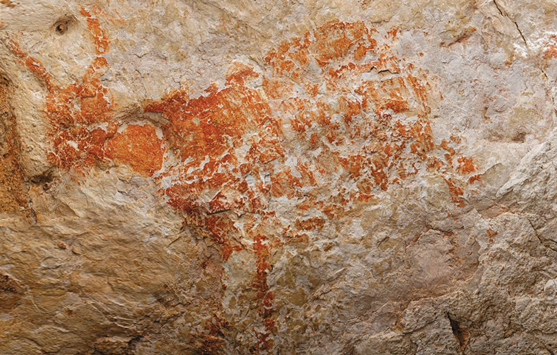 A bull painting, made with ochre, discovered in Lubang Jeriji Saléh cave, East Kalimantan, Borneo, Indonesia, dated 40 ka. At the moment of the discovery, it is the most ancient sample of figurative cave painting.